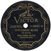 A record of Blind Willie McTell's Stateboro Blues, issued by RCA Victor